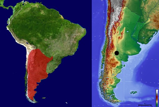 A map showing where Abelisaurus comahuensis was found.